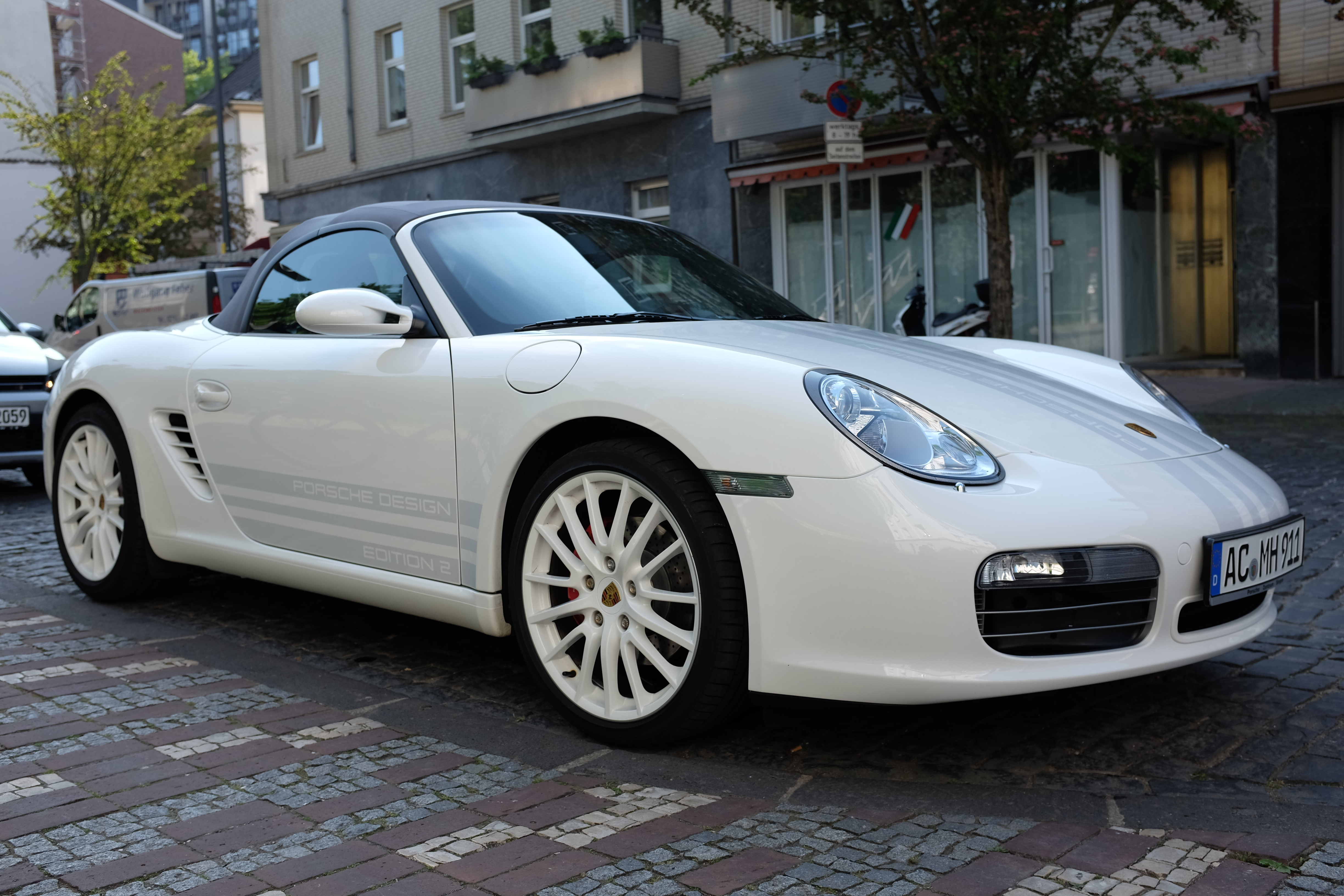 White Porsche 987 Boxster S Design Edition 2